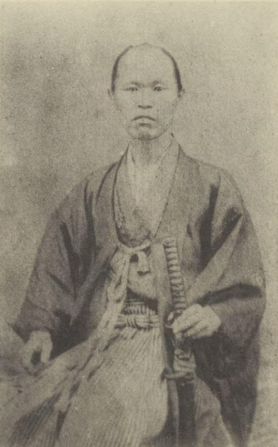 Yanagawa Shunsan, a rangaku scholar of Owari domain in the end of Edo period.